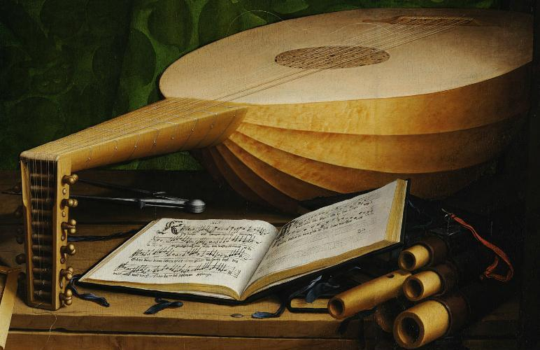 Holbein Ambassadeurs detail instruments de musique